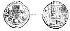 Coin struck in Toron